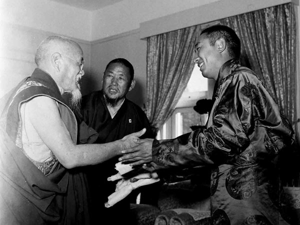 Ven. Dobi Geshe Sherab Gyatso (left) with the 10th Panchen Lama (right), 4 April 1959.